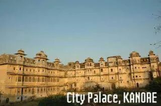 City Place Kanore